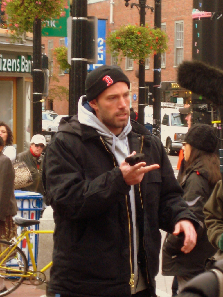 Ben Affleck filming his heist flick, The Town, in Cambridge.